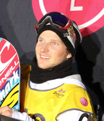 Janne Korpi in London after winning the Big Air discipline.